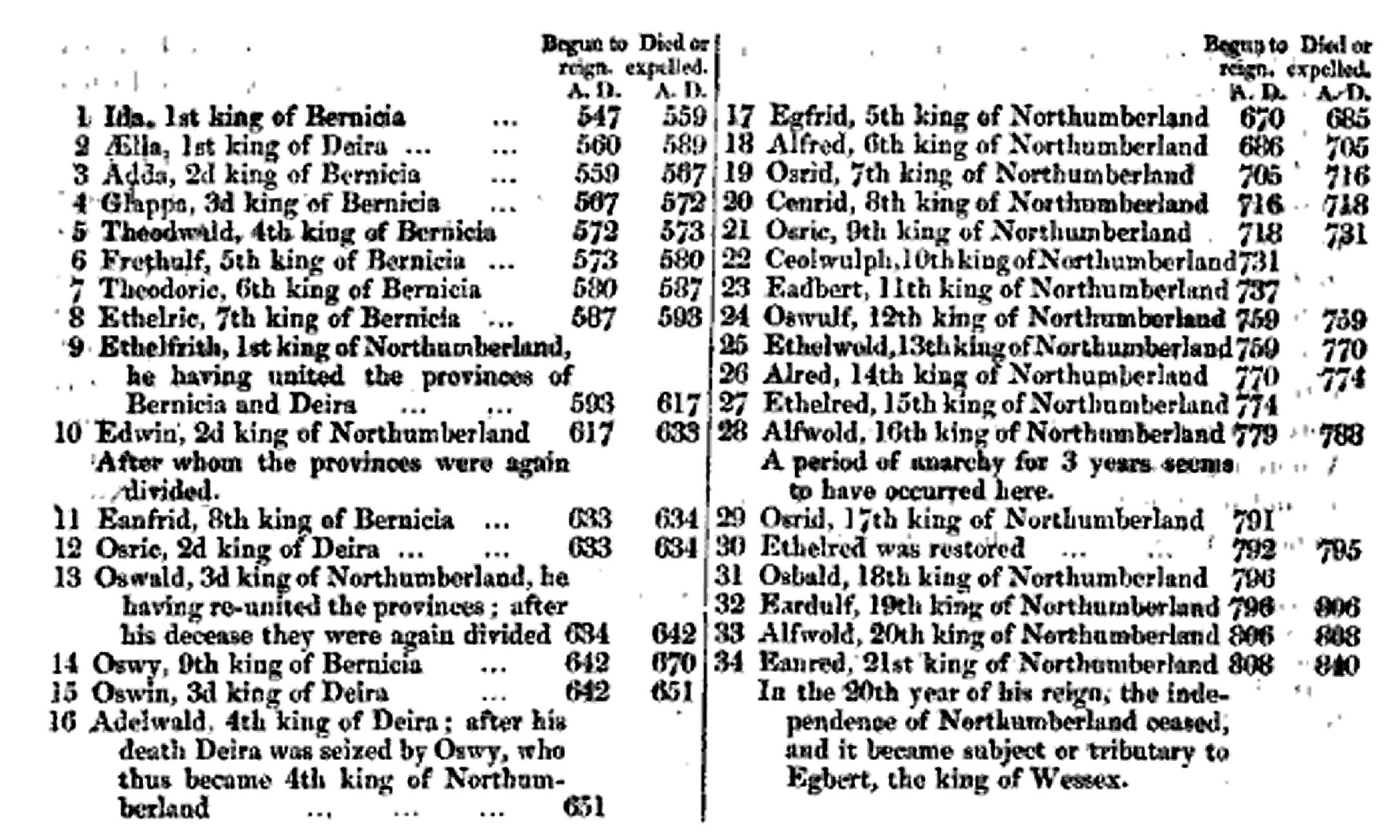 Bernician rulers from AD 547